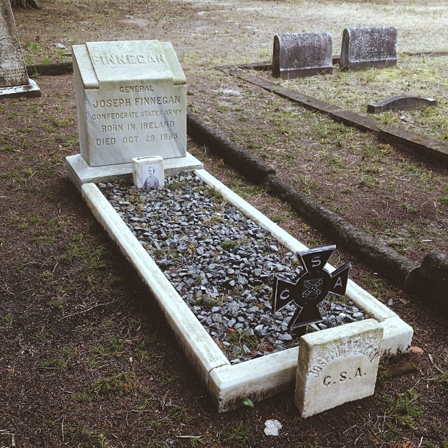 Joseph Finnegan of the American Civil War